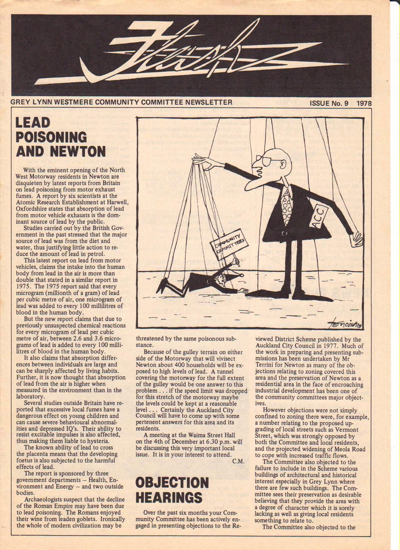 This is the front page of the Flash the Gery Lynn,Westmere Community Committee Newsletter Issue No.9 1978